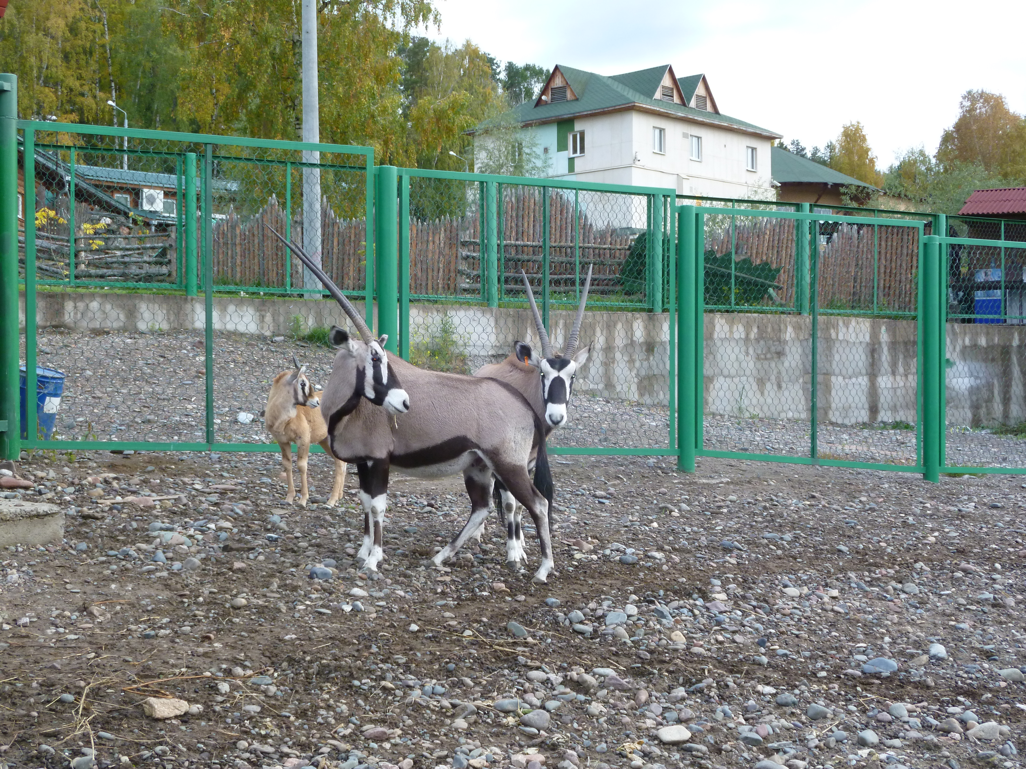 Zoo in Krasnojarsk